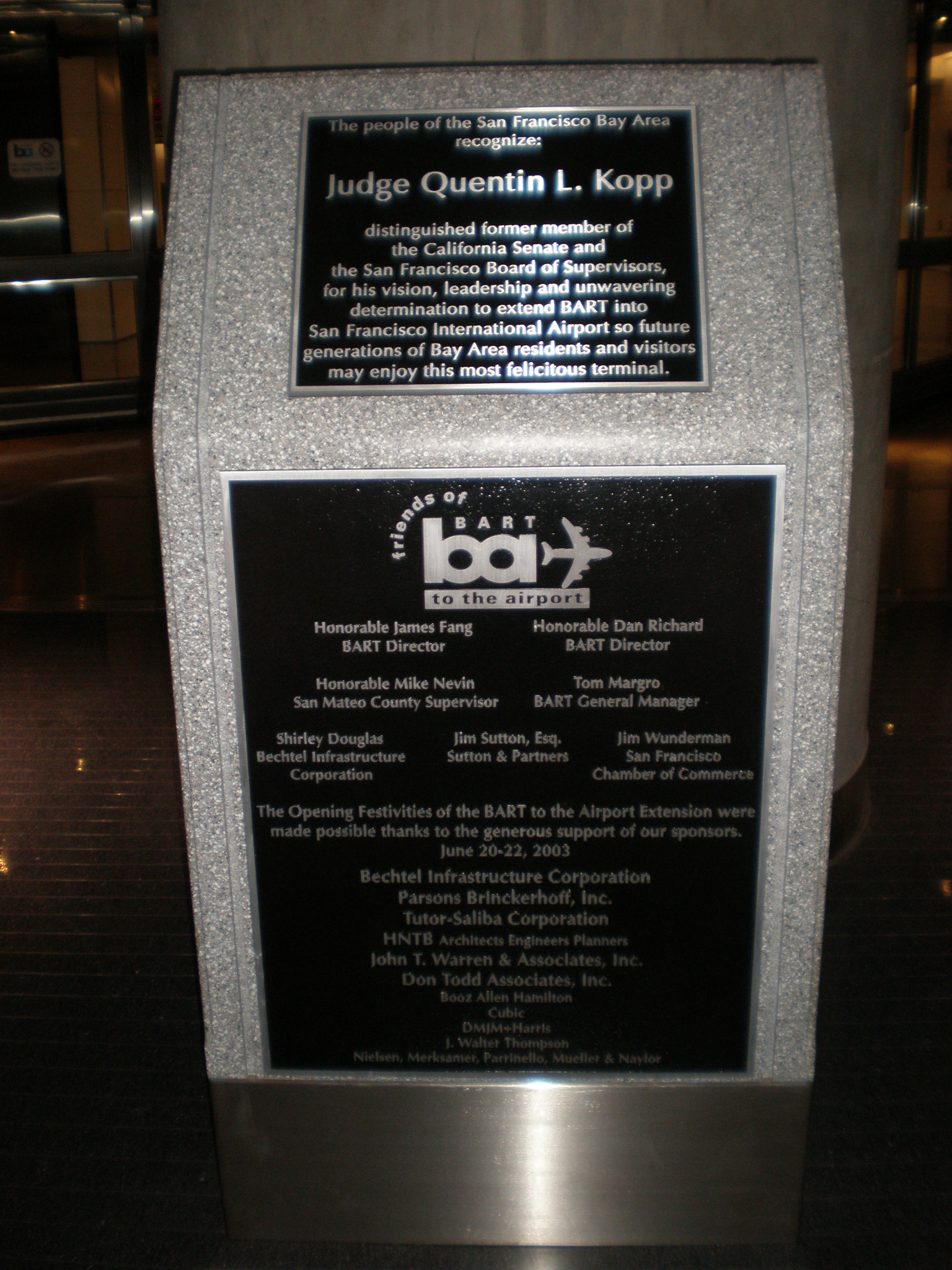 A plaque at the San Francisco International Airport BART station.